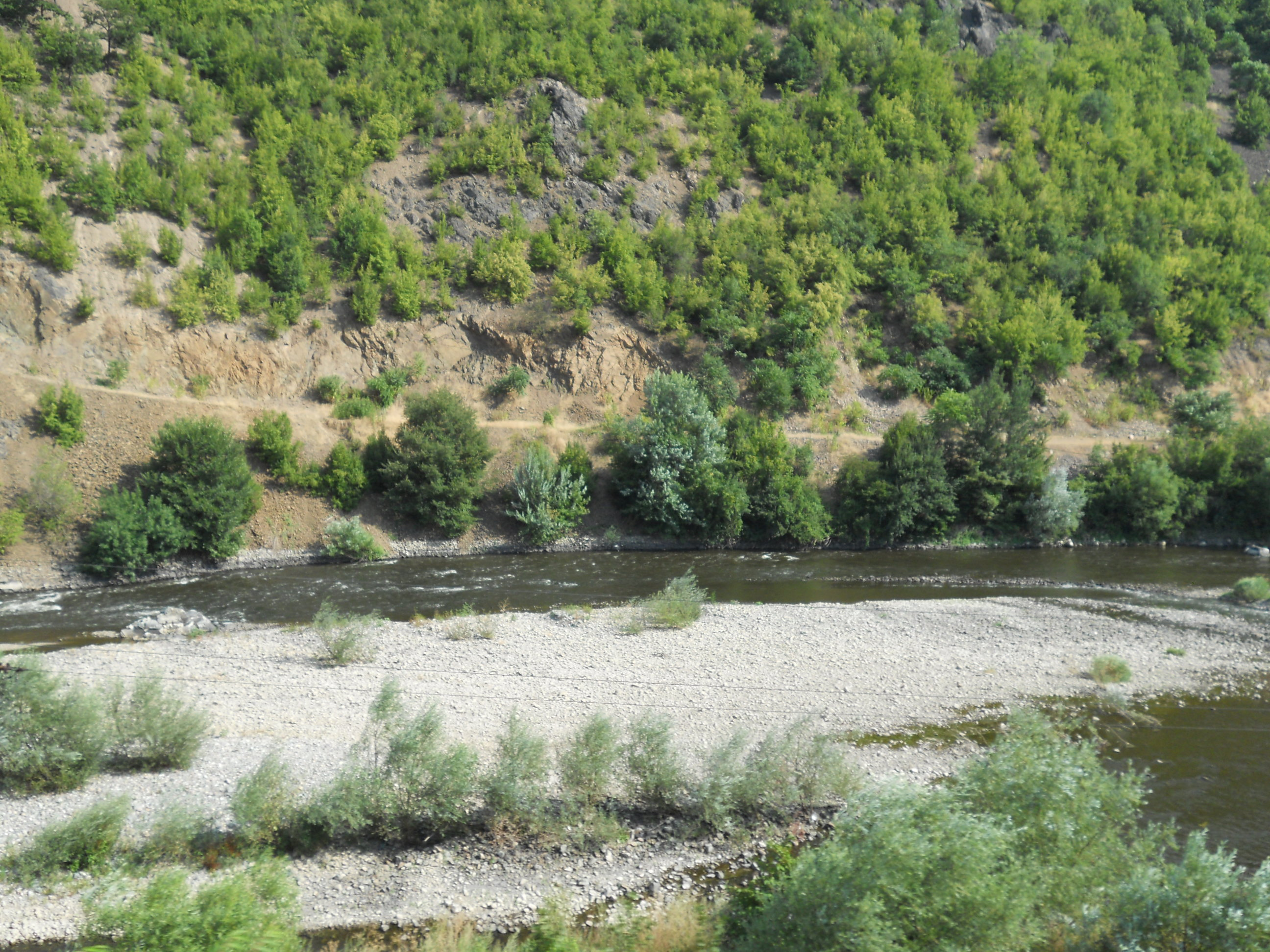 Stara Planina Mountain, Iskar Gorge